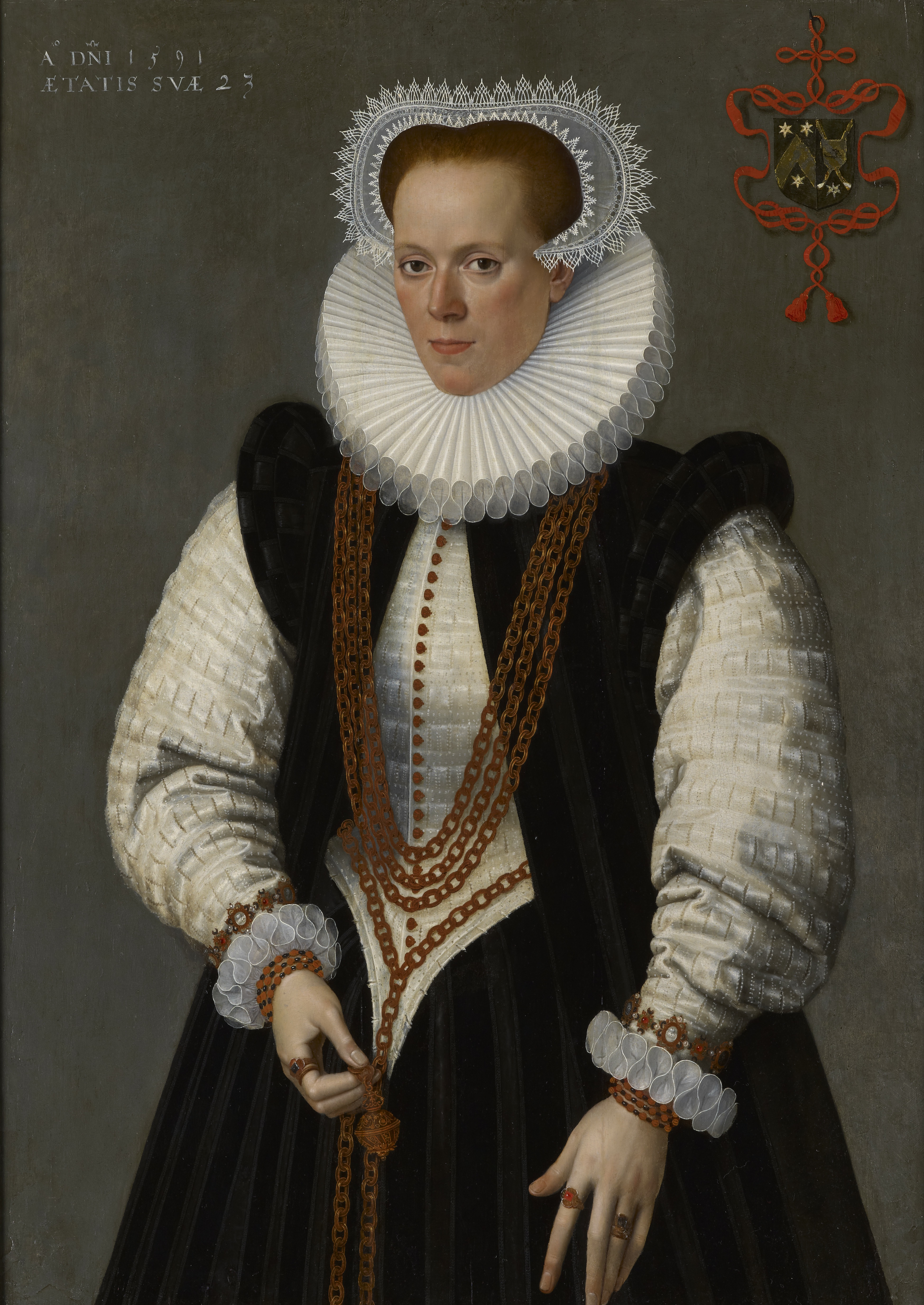 Portrait of Marie de Huelstre, wife of Willem van Vyve.